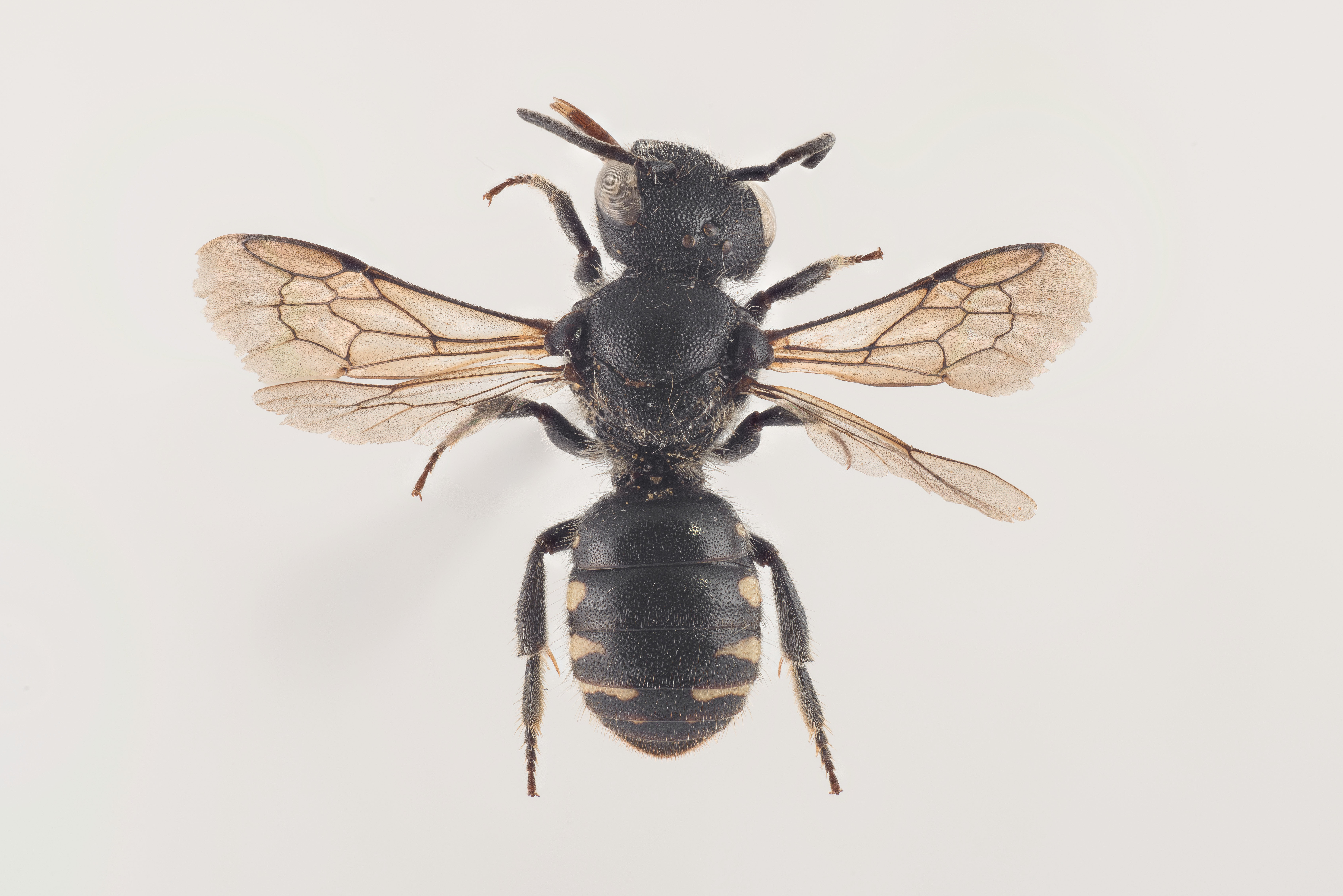 Stelis ornatula